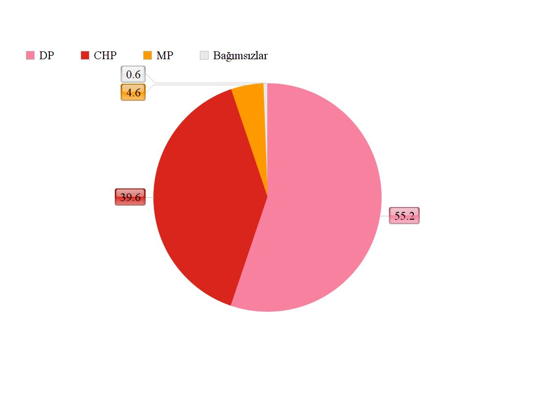 1950 Turkish general election results pie chart.